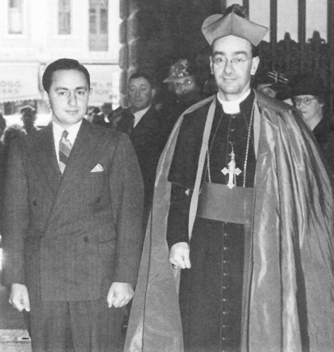 Catholic Archbishop of Adelaide Matthew Beovich with B. A. Santamaria at the first Catholic Action Youth rally in 1943.